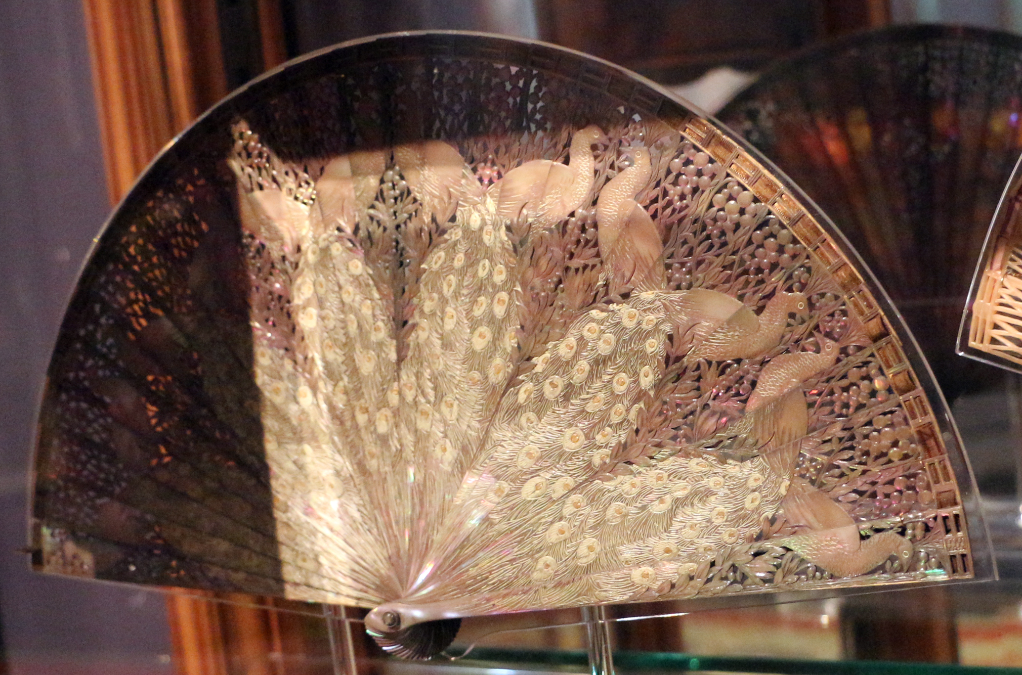 Decorative arts in the Musée d'Orsay